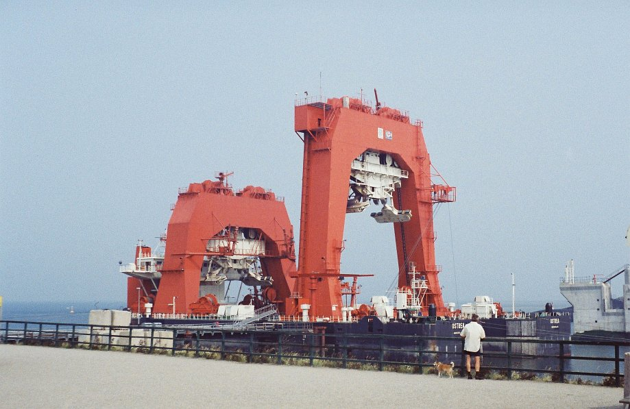 Vessel Ostrea, used for transporting concrete elements of the Oosterscheldekering, part of the Delta Works.